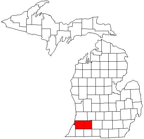 Map of Michigan highlighting the Kalamazoo—Portage Metropolitan Statistical Area; created with the GIMP. Made by User:Acntx.